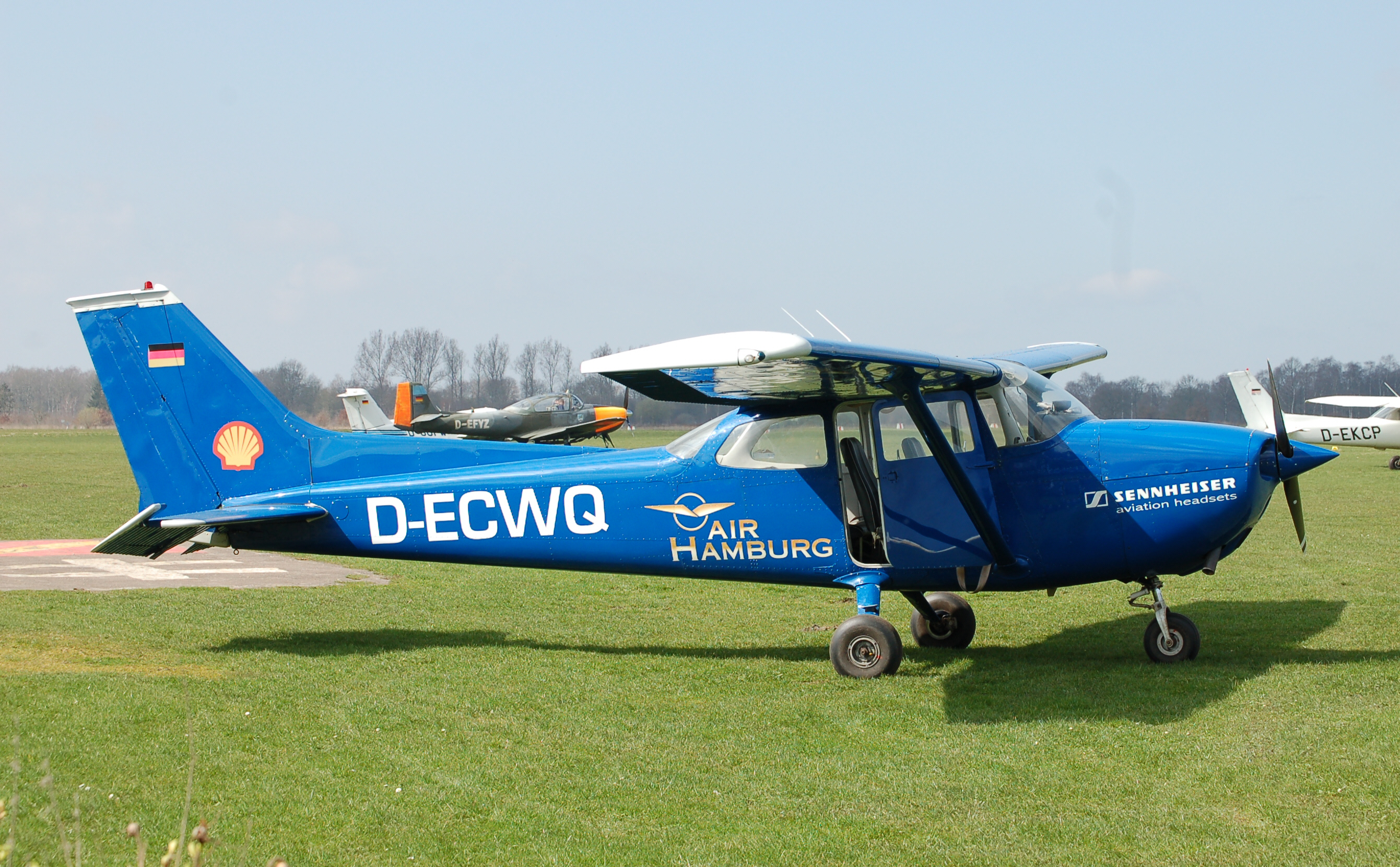 Cessna 172 Skyhawk (D-ECWQ) von Air Hamburg auf dem Flugplatz Uetersen.